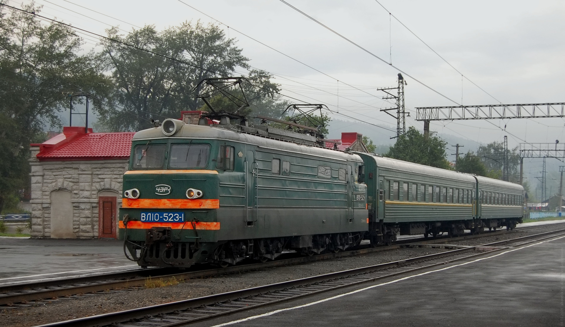 Electric locomotive VL10-523-1 with passenger train at Miass railway station, South Urals Railway, Russia